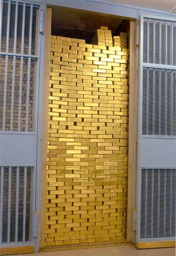 A picture from the gold vault of the Federal Reserve Bank of New York